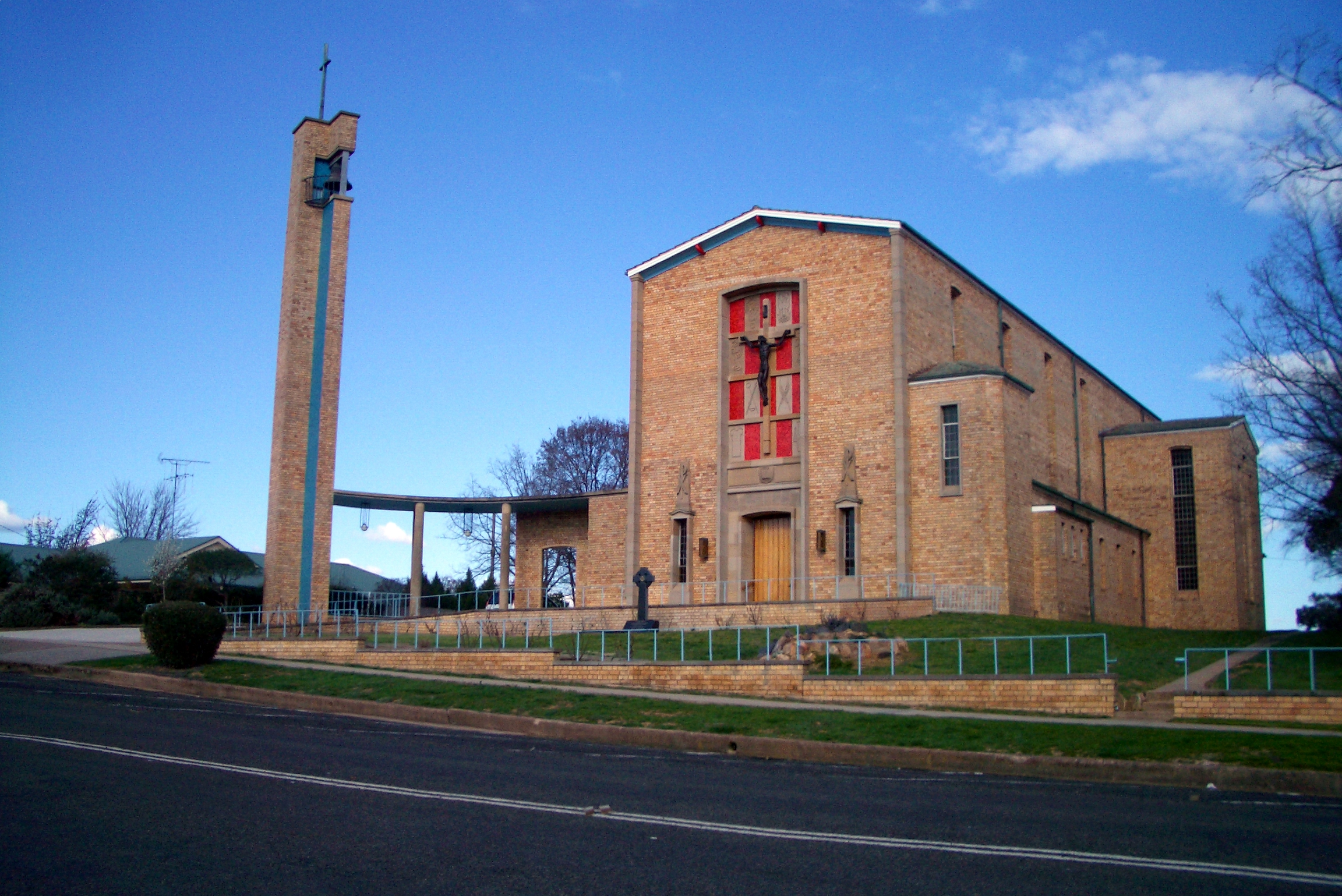 St Augustine's Church (Catholic), Meehan Street, Yass, NSW Australia Author, Paul McCarthy Date: 4 September 2005.